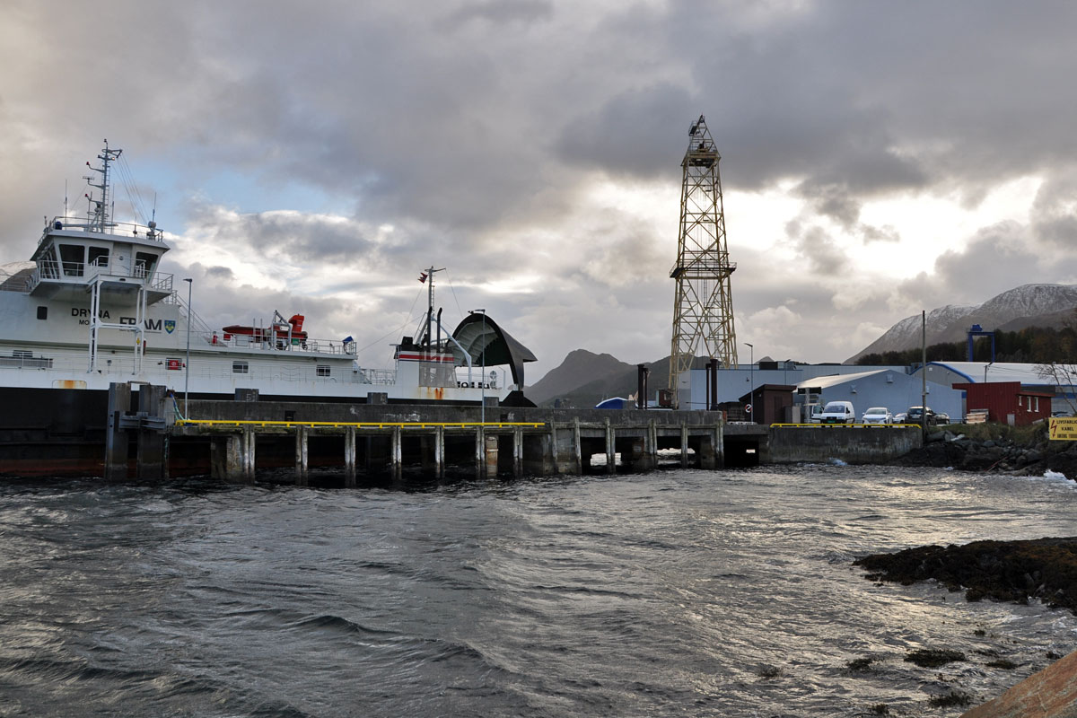 Brattvåg ferry pier.